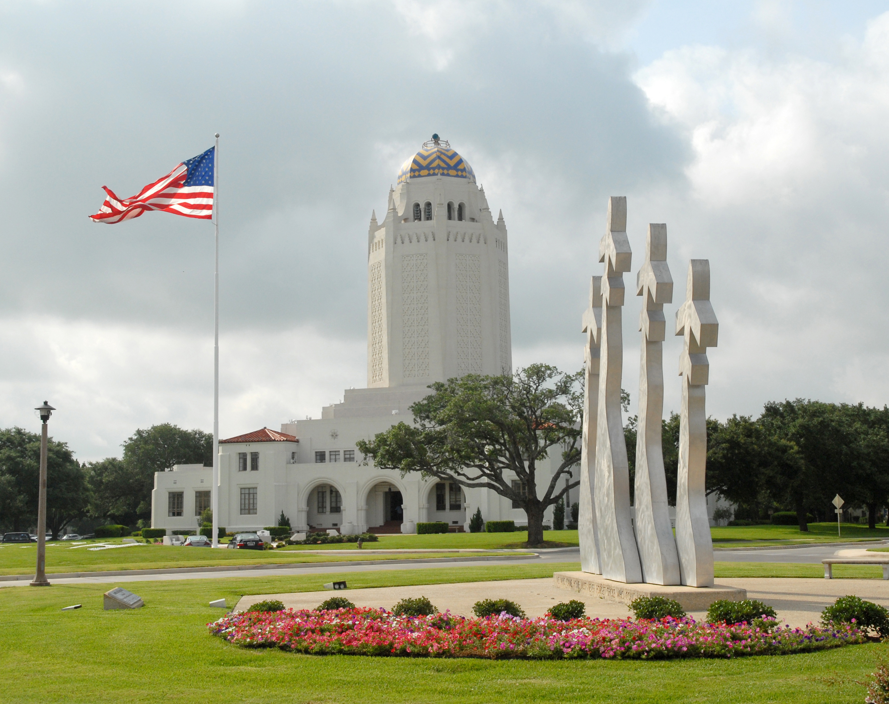 The 12th Flying Training Wing Headquarters (better known as "The Taj") at Randolph Air Force Base U.S.A., and the missing man monument in the morning sun.